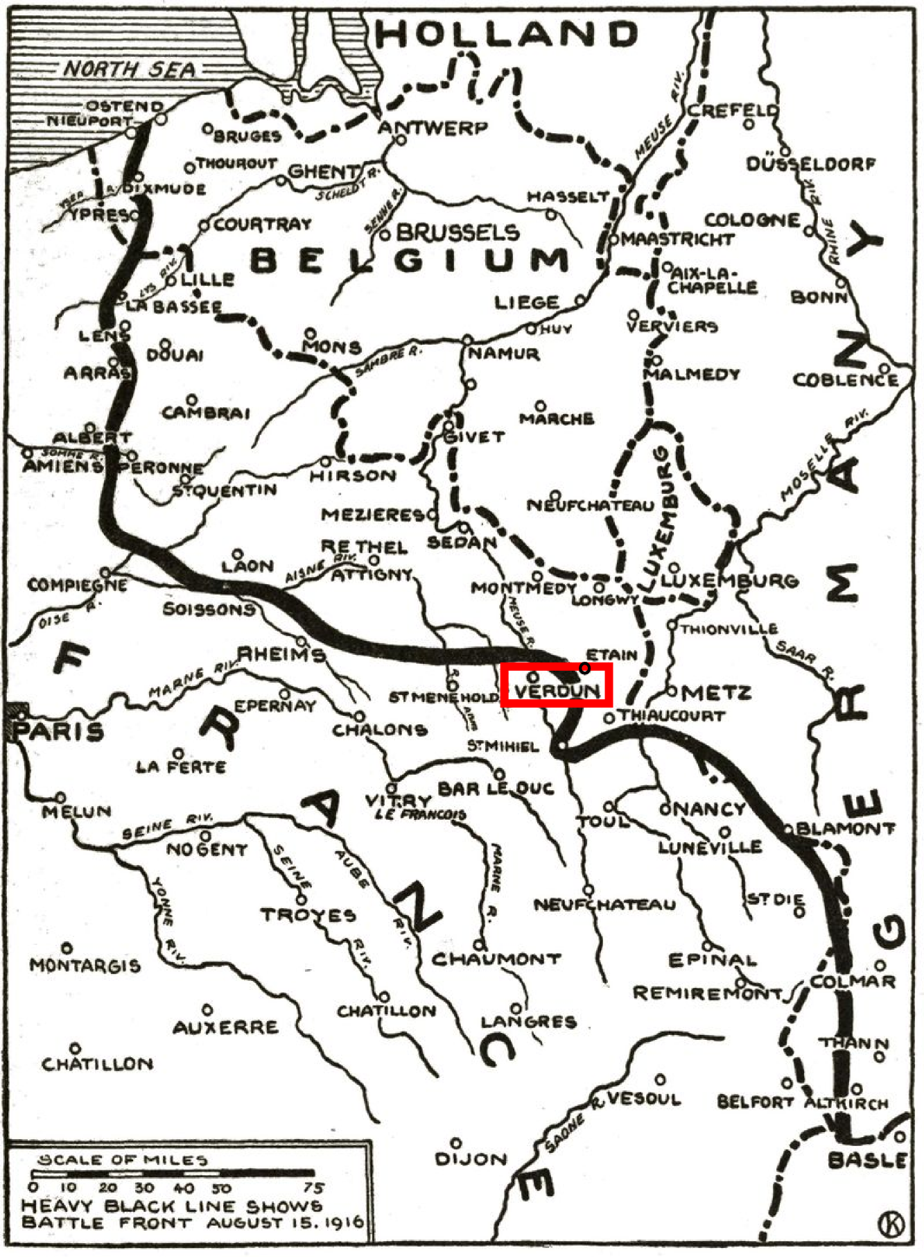 Western Battle Front, August 1916 From J. Reynolds, Allen L. Churchill, Francis Trevelyan Miller (eds.): The Story of the Great War, Volume V. New York. Specified year 1916, actual year more likely 1917 or 1918. Retreived from